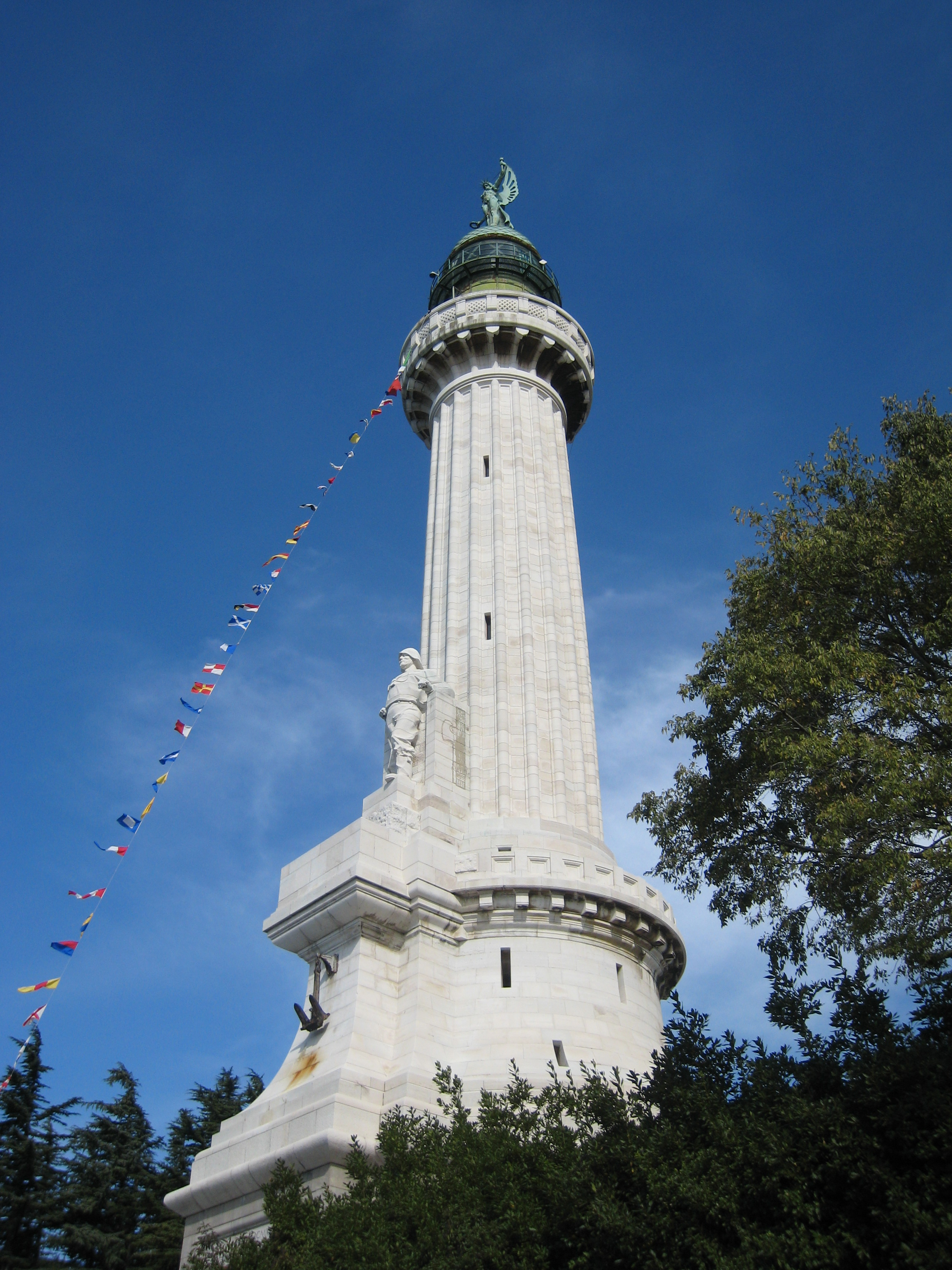 Trieste - The Victory Lighthouse at the 40th Barcolana - 10/13/2008